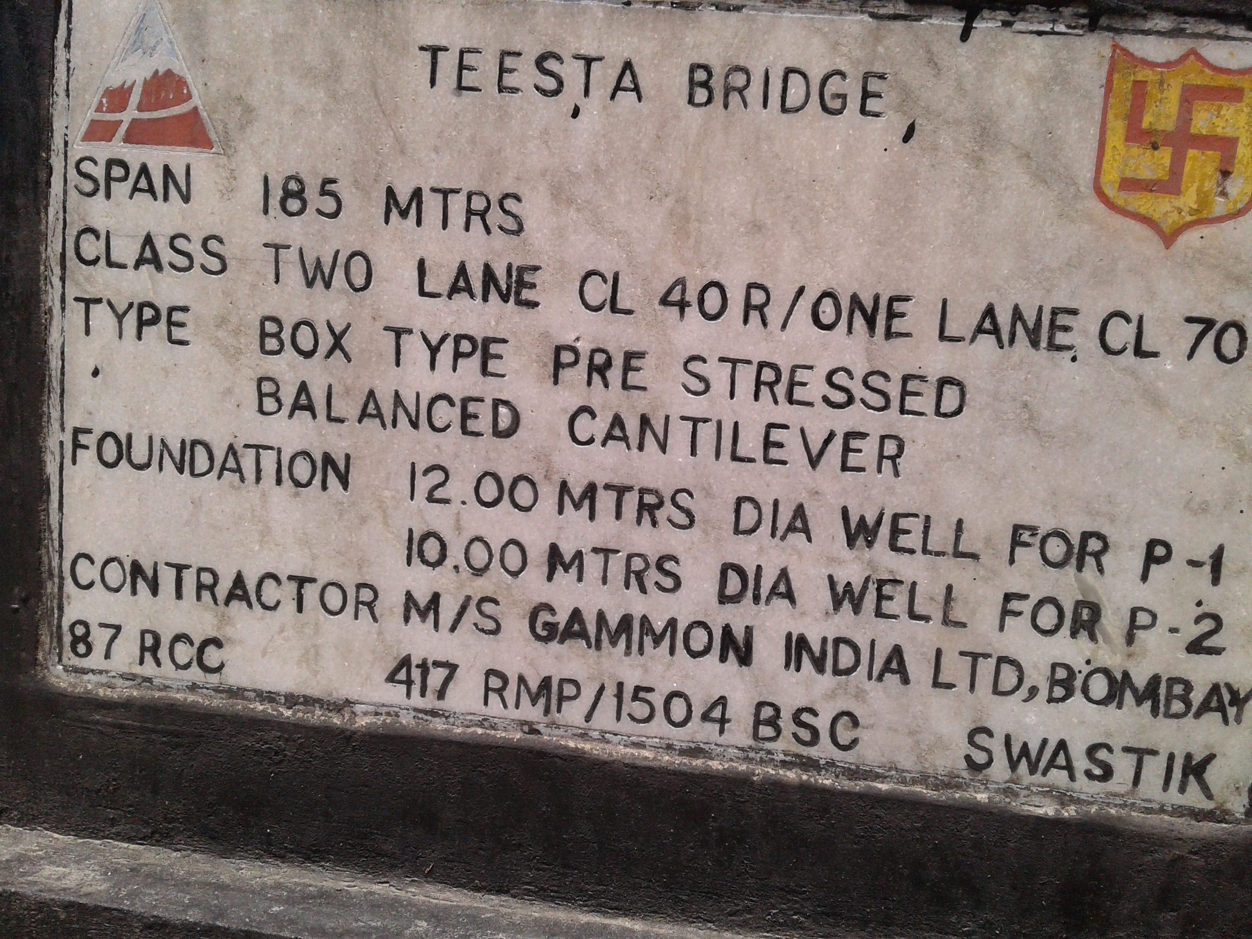 Teesta River Bridge Inscription at the junction of Darjeeling and Kalimpong